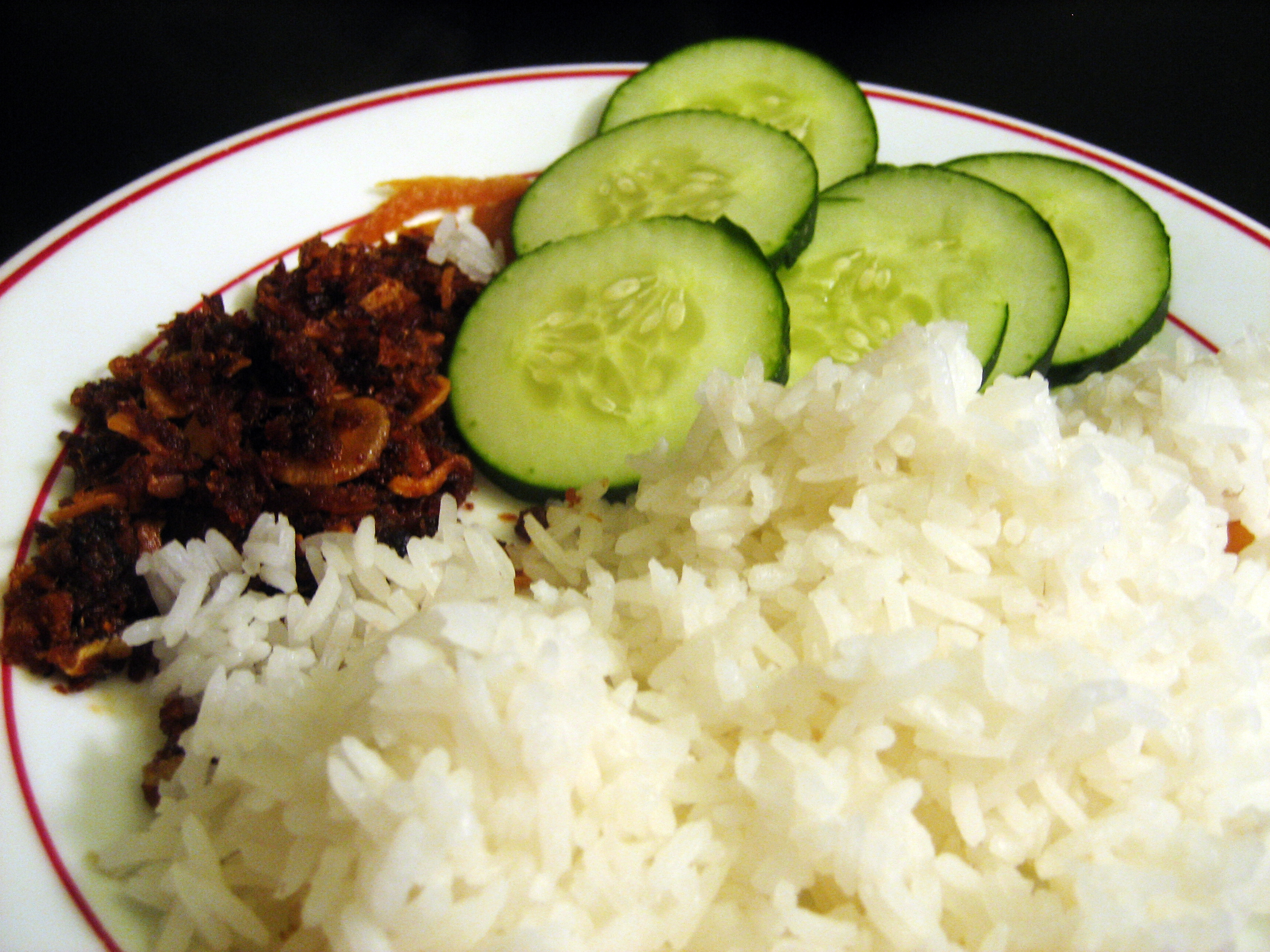 Ngapi kyaw, sliced cucumbers and steamed rice မြန်မာဘာသာ: ငပိကြော်၊ တို့စရာနှင့် ထမင်း